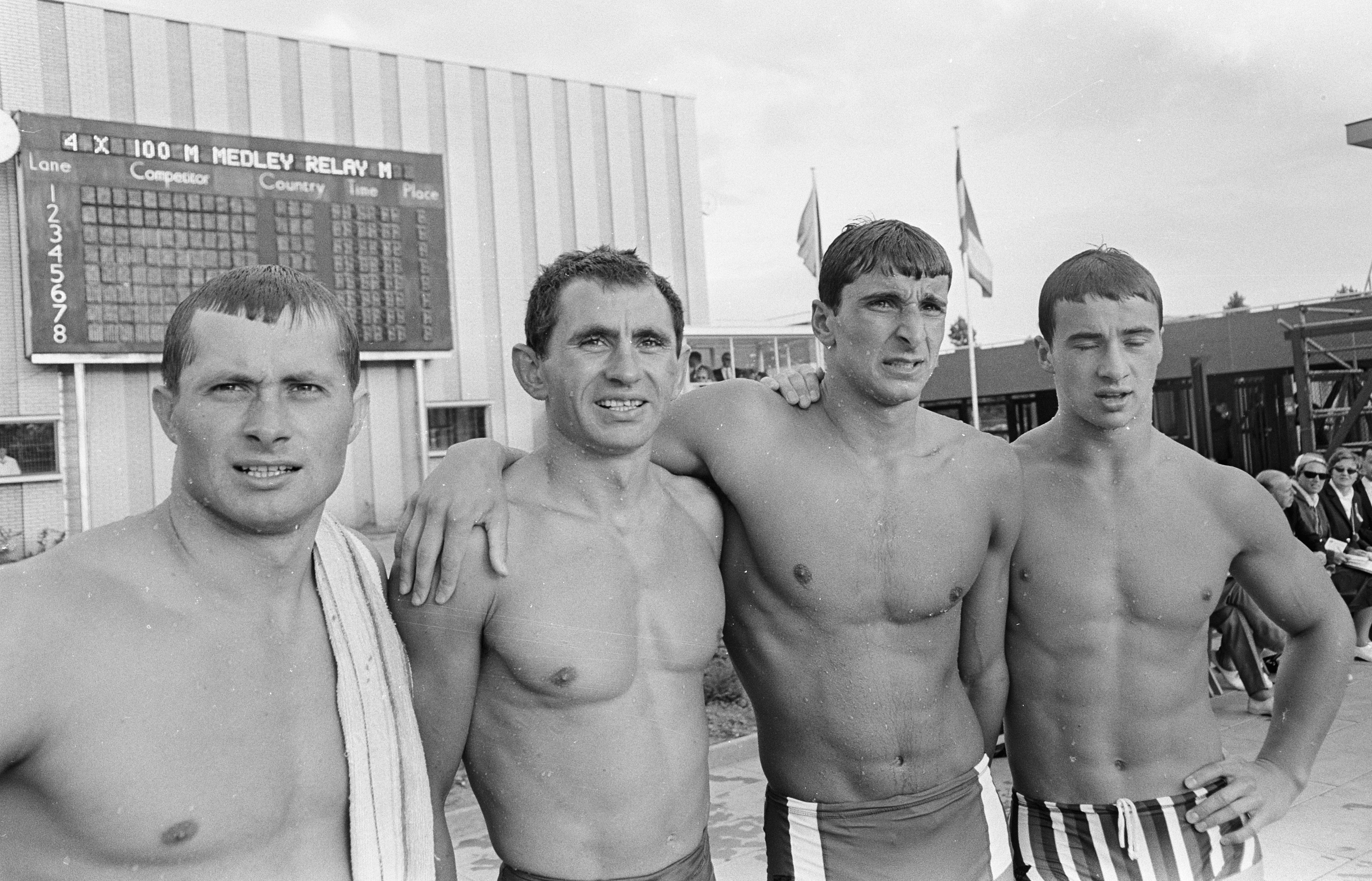 Left-right: Kuzmin, Prokopenko, Mazanov, Ilyichov, European champions in the 4 x 100 m medley